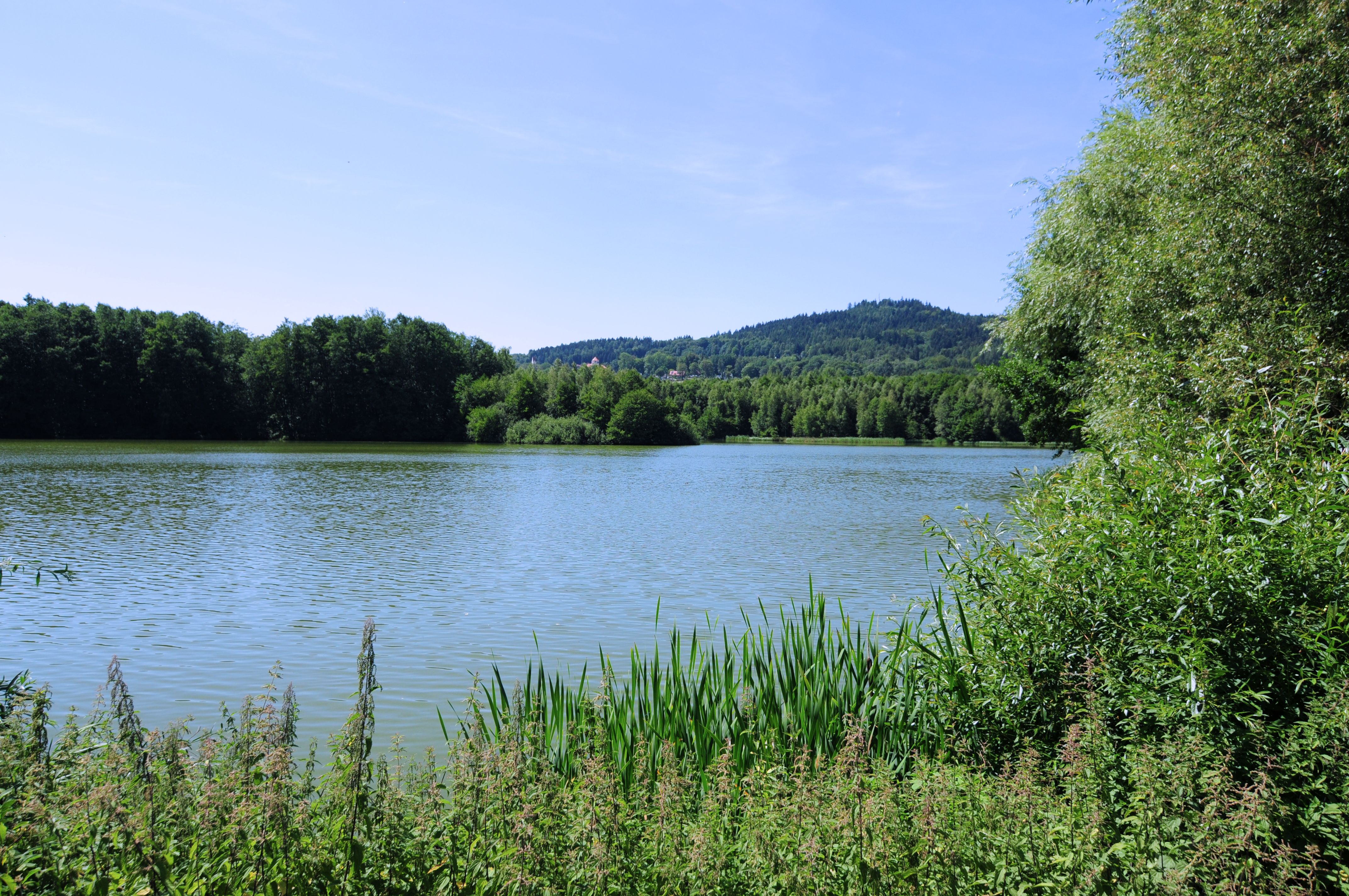 landscape near Schönberg am Kapellenberg, view over the pond Großer Teich to the Kapellenberg hill and the village Schönberg (district Vogtlandkreis, Free State of Saxony, Germany)